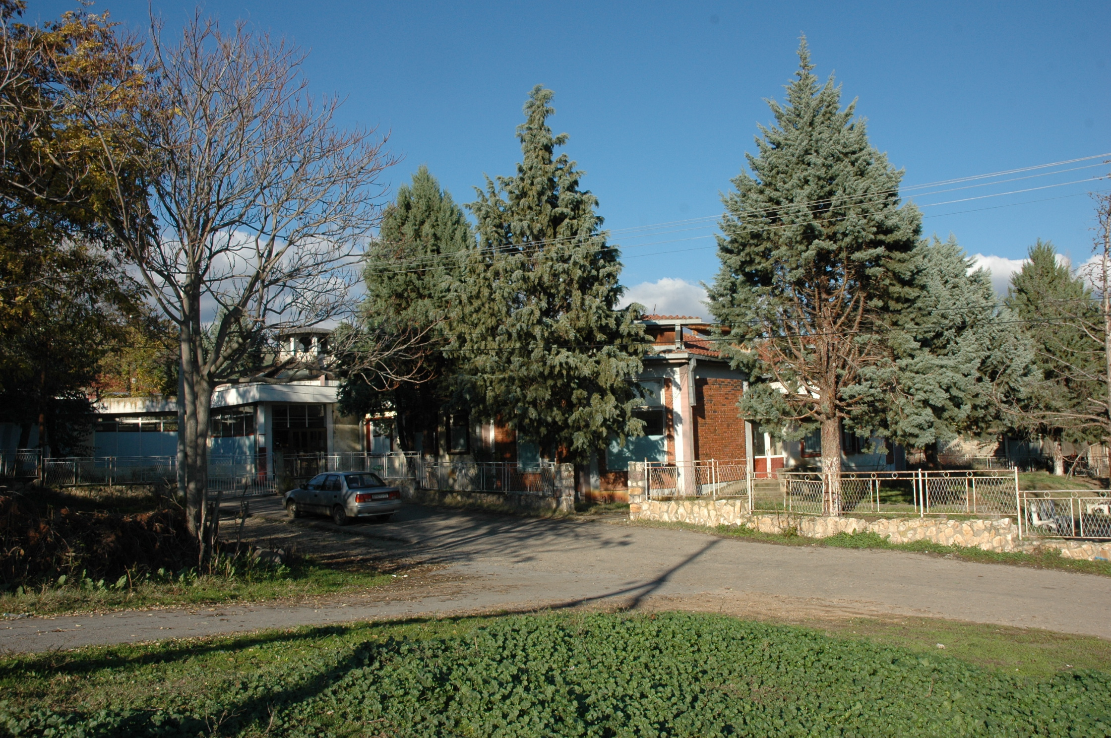 Бањата во село Бања